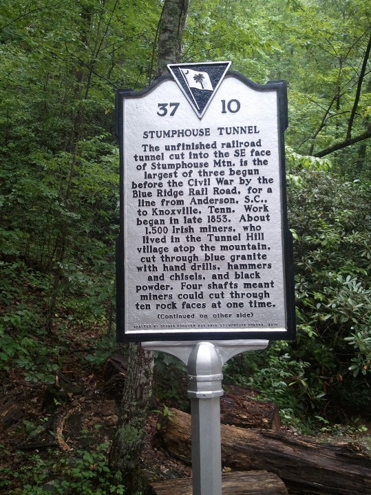 Sign placed near Stumphouse Mountain Tunnel entrance